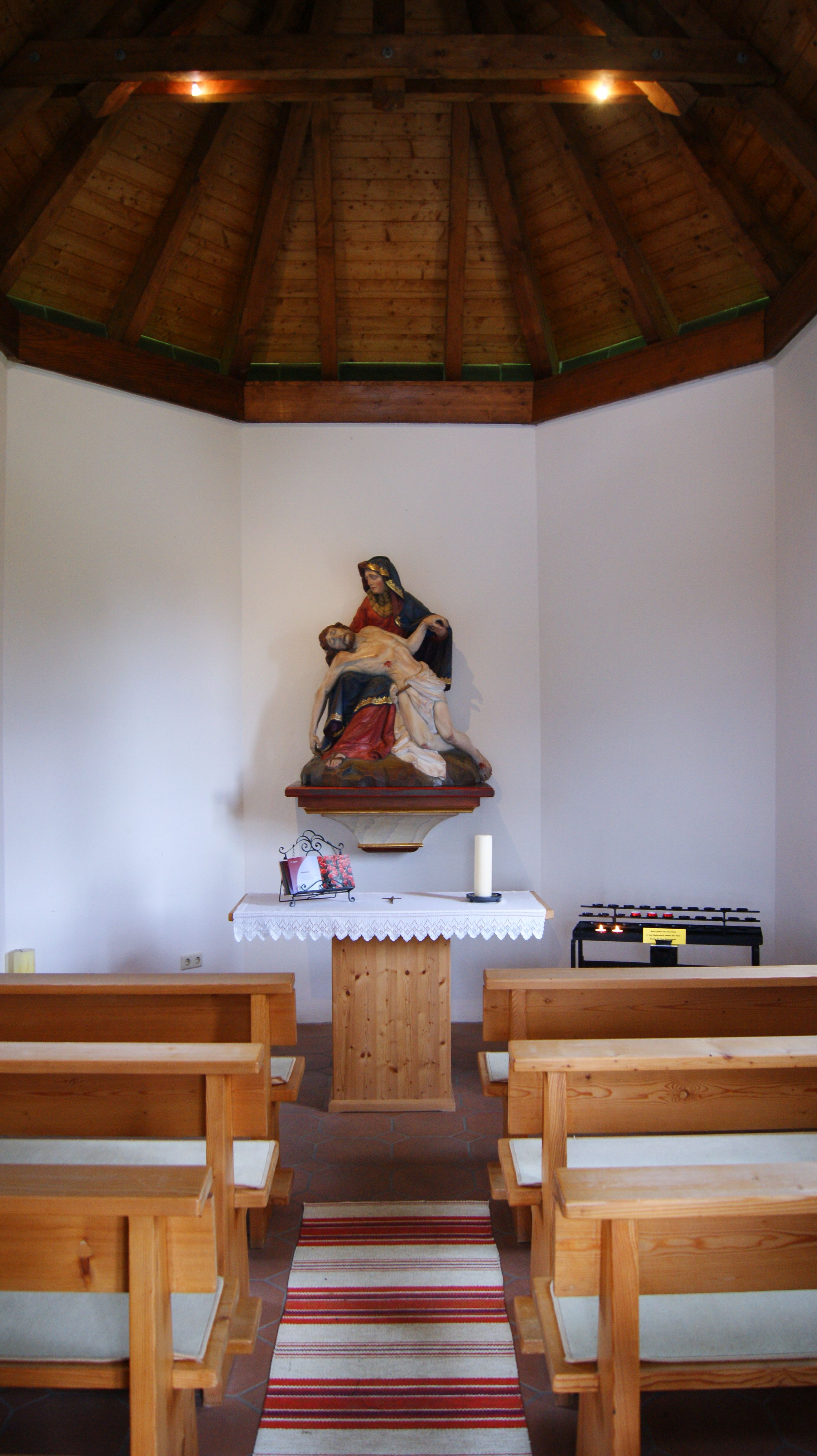 Chapel Linzenberg in Schwarzach in Vorarlberg, Austria.